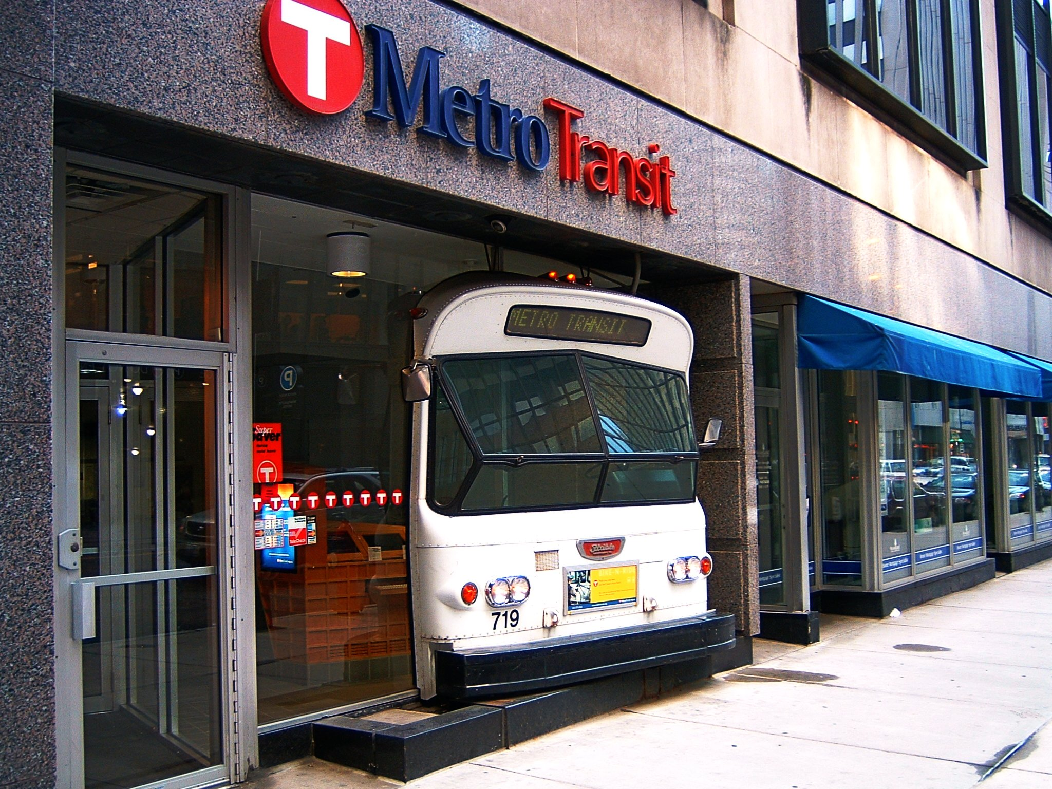 The Metro Transit office, in downtown Minneapolis, Minnesota (at 719 Marquette Avenue), incorporates the front end of a retired Flxible New Look bus bus.